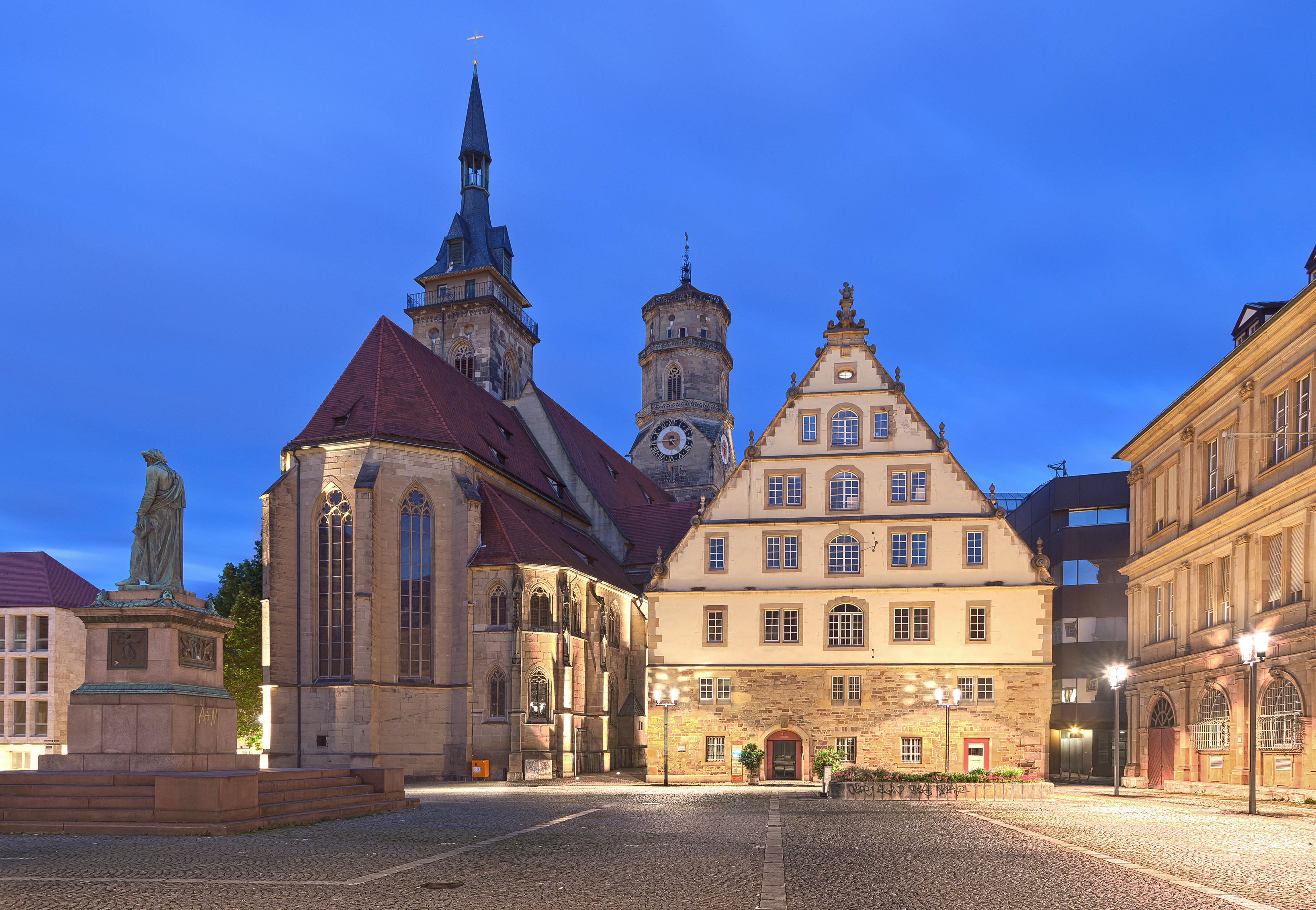 Schillerplatz in Stuttgart, Germany with Fruchtkasten and Stiftskirche